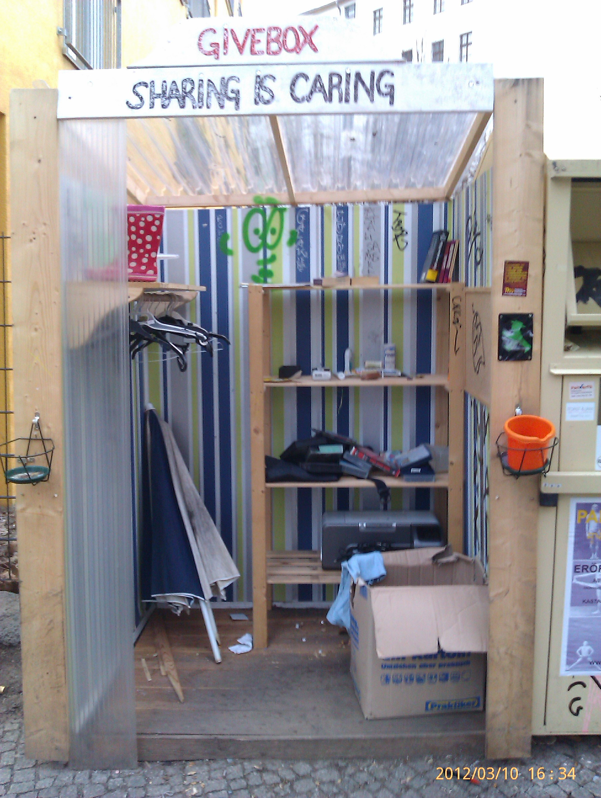 Givebox Prenzlauer Berg March 2012